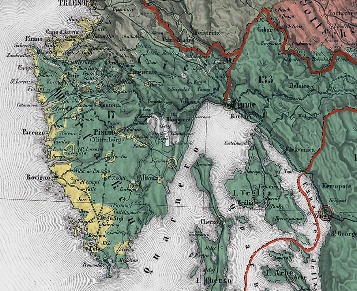 Detail of the File:Ethnographic map of austrian monarchy czoernig 1855.jpg, made by Karl von Czoernig-Czernhausen. Istria is depicted